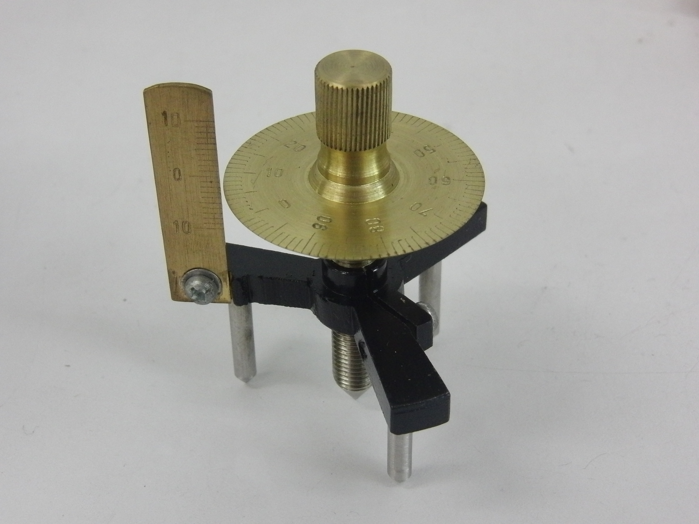 spherometer